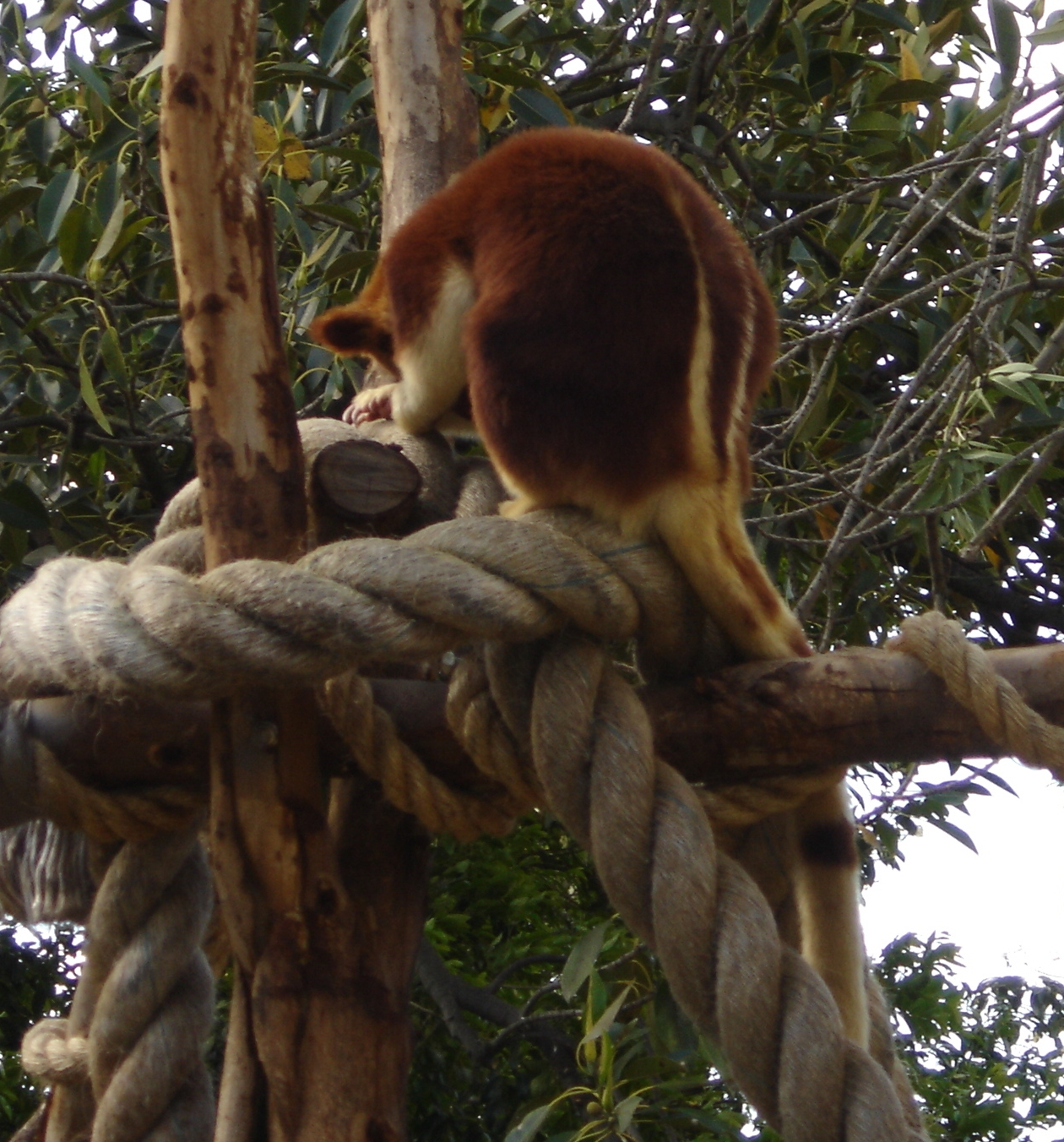 Dendrolagus goodfellowi Description: Goodfellow's tree-kangaroo at Melbourne Zoo. Author: Angela Beesley This is a cropped version. See [1] in the image history for the full photo.